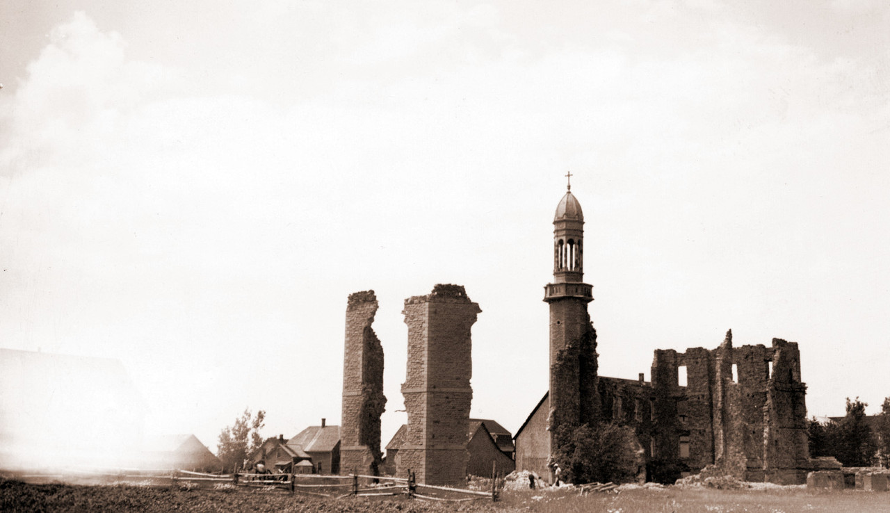 The ruins of the Sacré-Coeur College, after the 30th december 1915 fire.